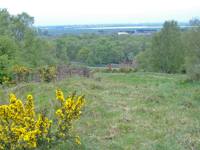 Atkinson's Warren Local Nature Reserve This 33-hectare nature reserve is off Ferry Road in Scunthorpe. Details are at